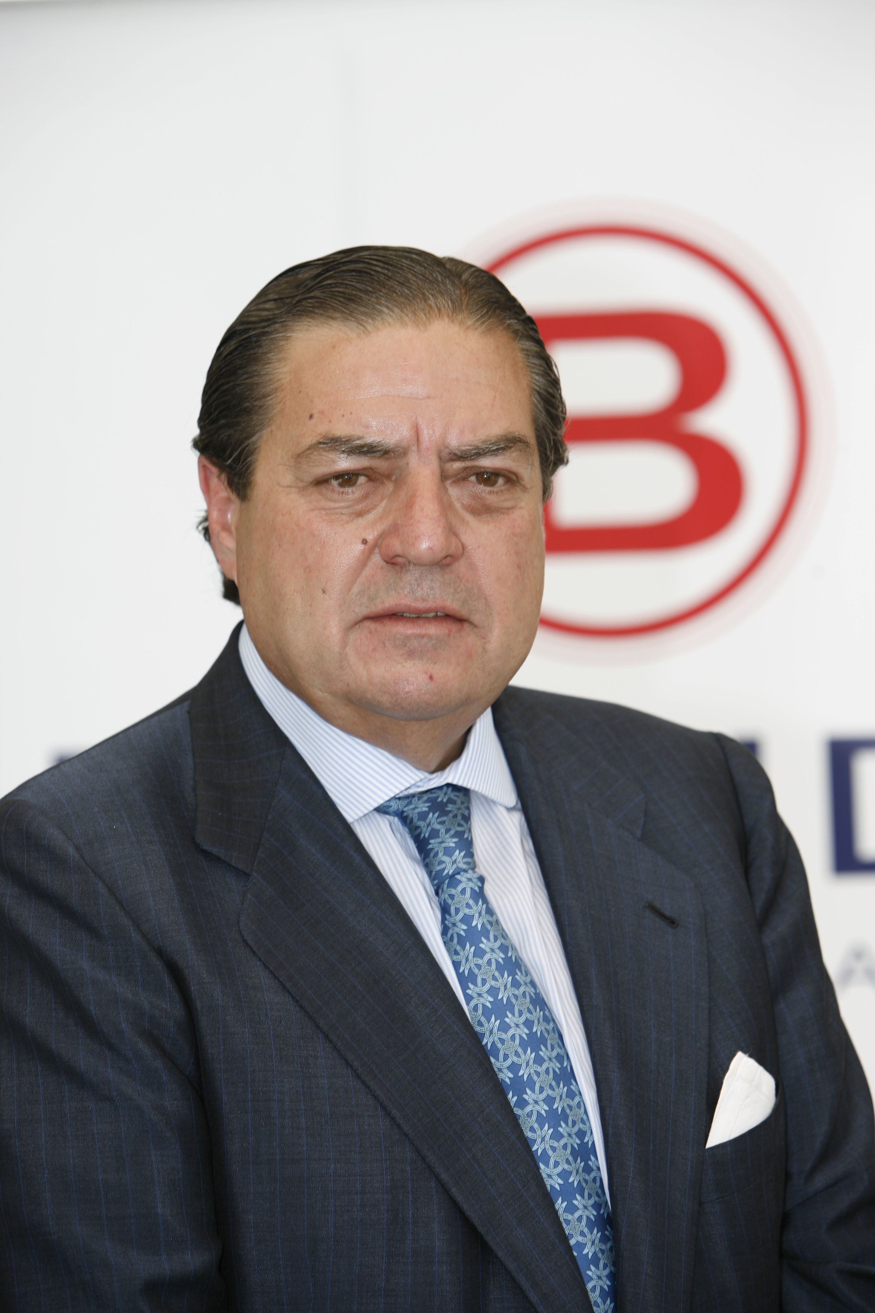 Vicente Boluda, former president of Real Madrid